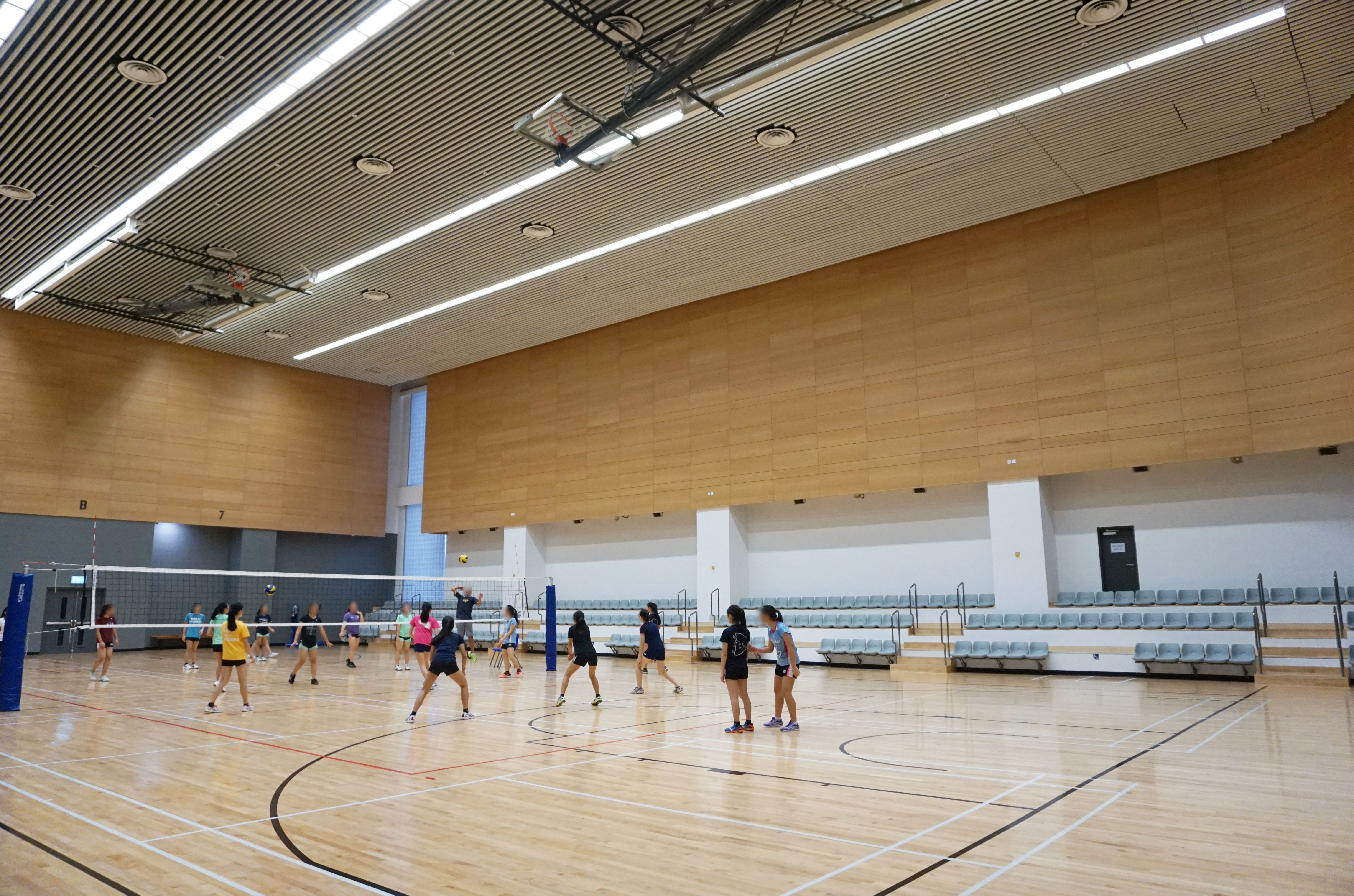 Southwest Sports Centre in Tsing Yi, Hong Kong.